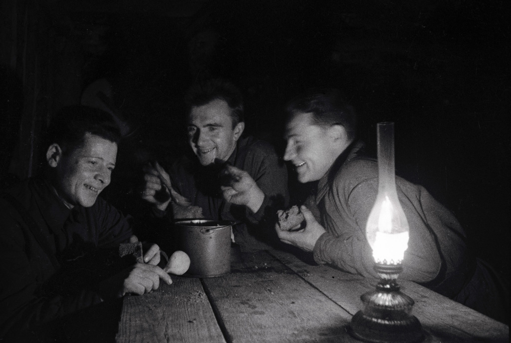 “Soldiers having rest”. Soldiers having rest at night. The North-Western Front.